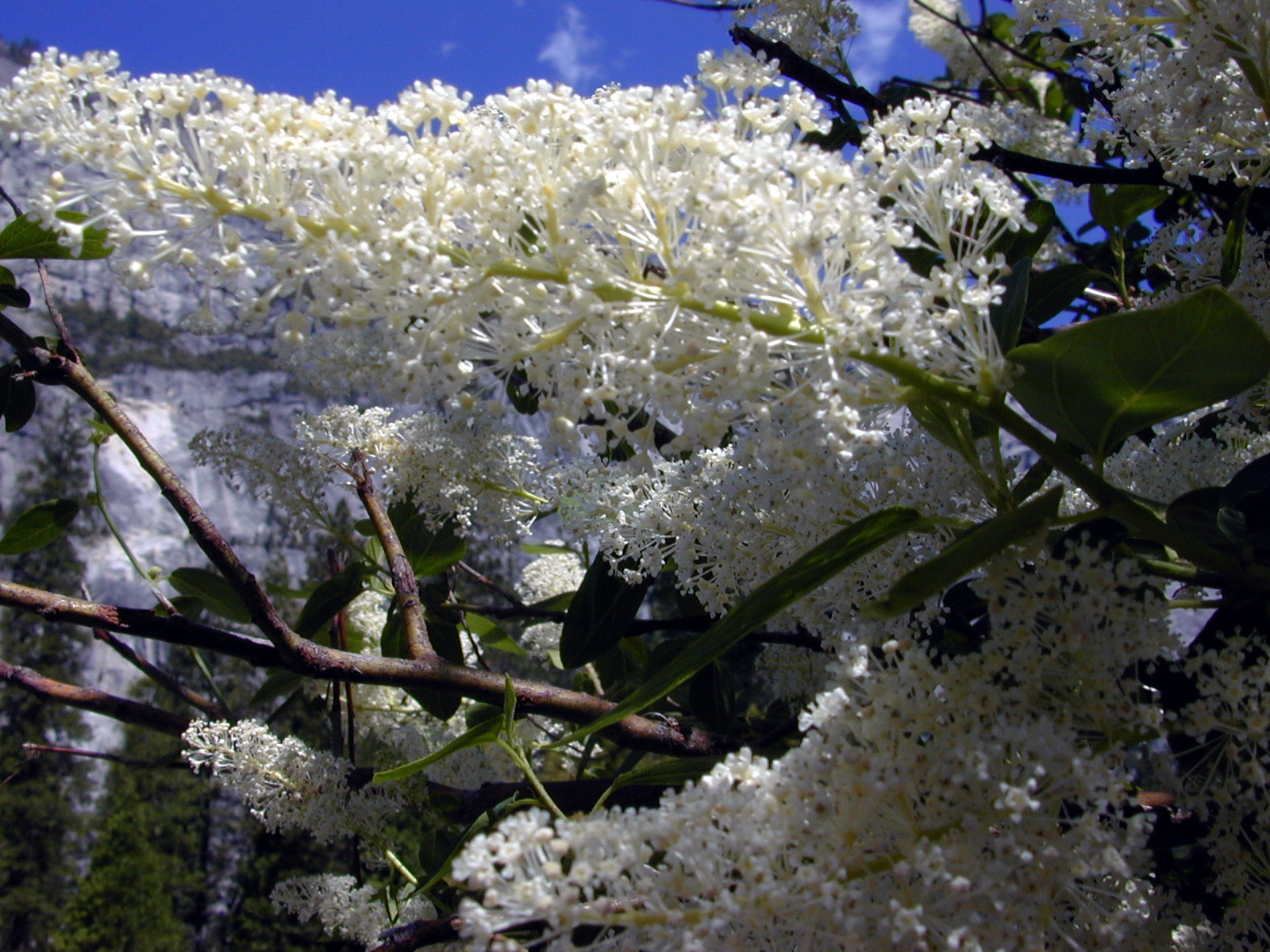 Deer Brush (Ceanothus integerrimus), Yosemite National Park. "California Lilac"